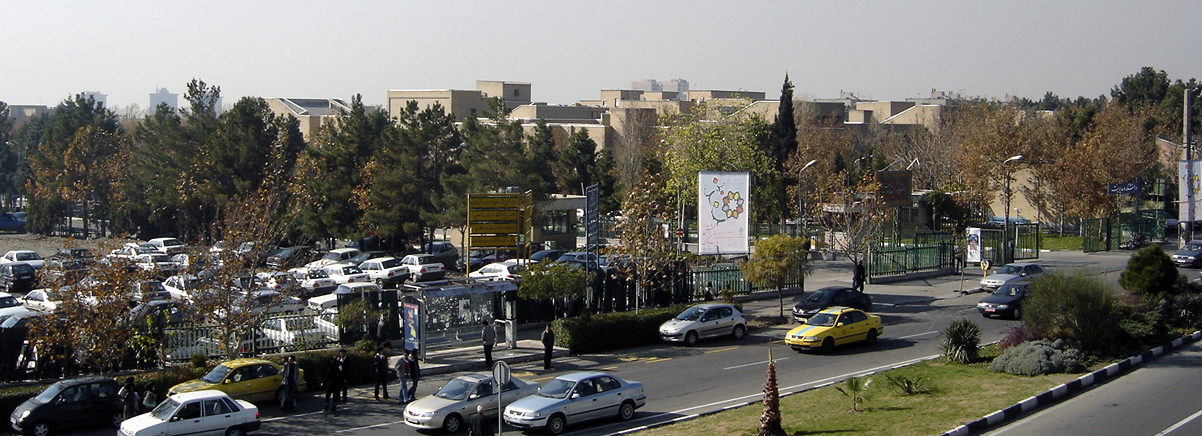 University of Tehran faculty of Management